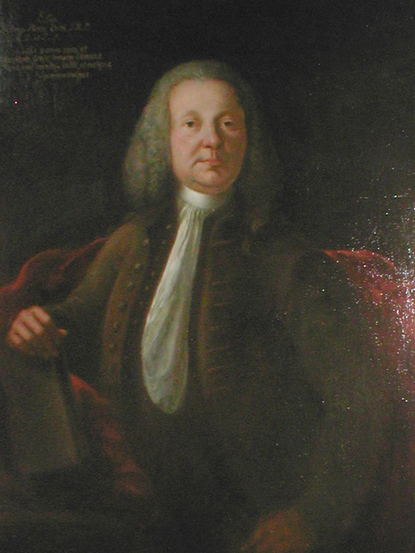 Georg Heinrich Orth (1698–1769), mayor of Heilbronn, Germany. Contemporary painting